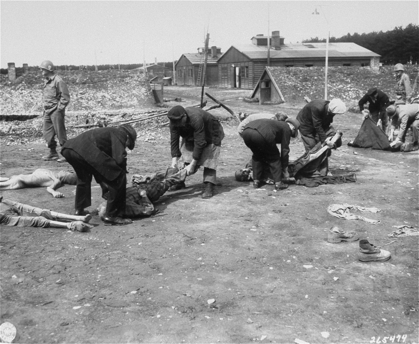 Original caption: "German Civilians from Landsberg, Germany, are carrying the dead bodies of Russians, Poles, French, and Jewish prisoners, starved and burned to dead by German S.S. troops at the Stalag #4 concentration camp."